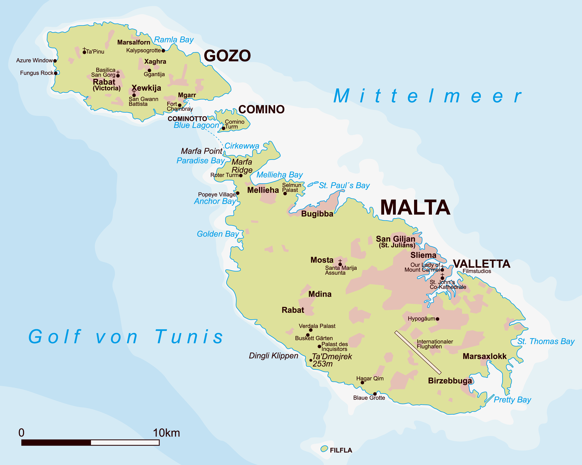 Map of Malta, Gozo and Comino